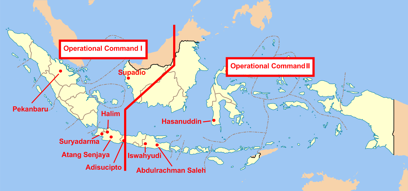 Map of locations of bases of the Indonesian Air force and Air force commands